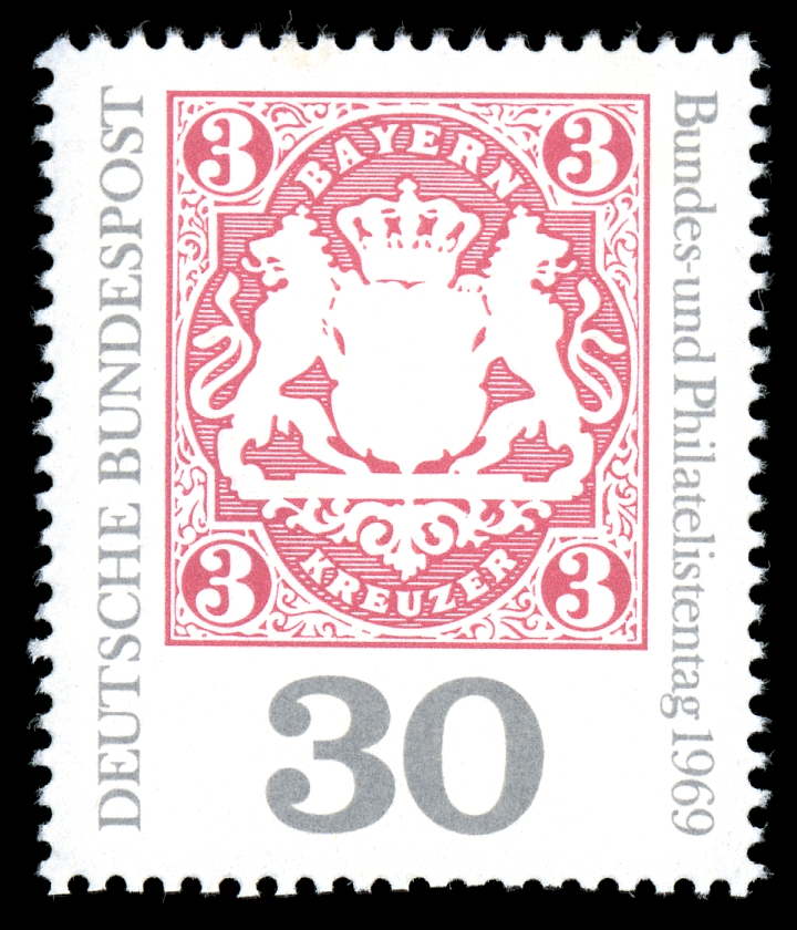 Stamp of Deutschen Bundespost from 1969, philatelist′s day 1969